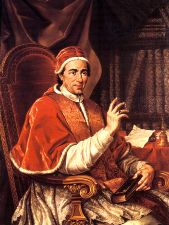 Pope Clemens XIV